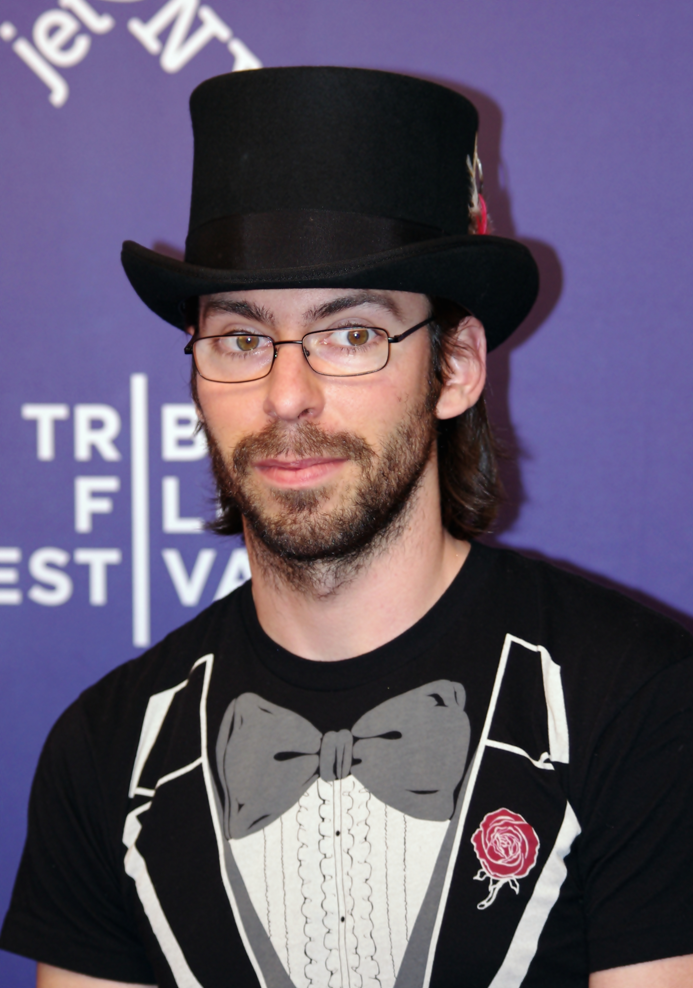 Martin Starr at the 2011 Tribeca Film Festival premiere of A Good Old Fashioned Orgy.